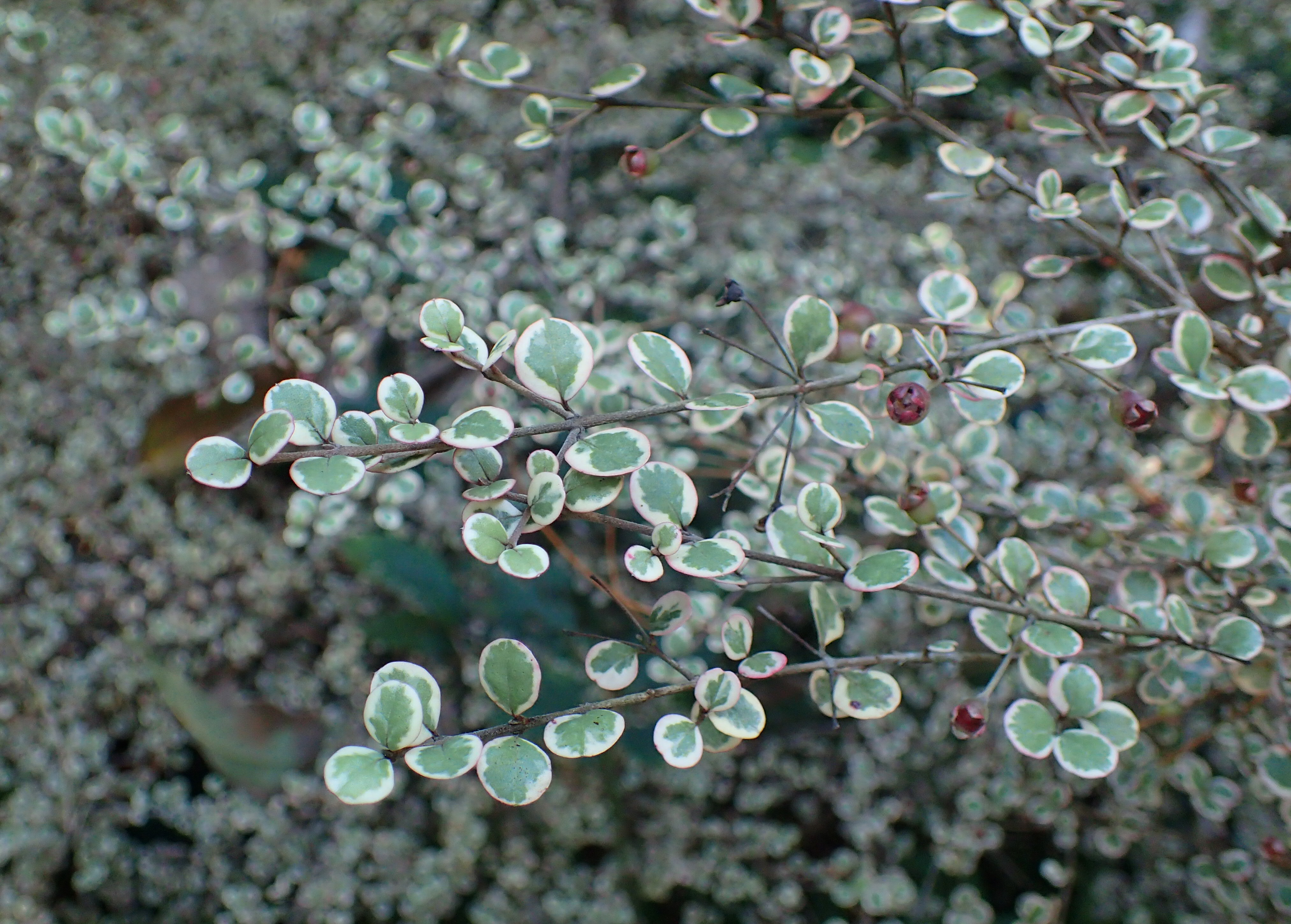 Lophomyrtus × ralphii 'Little Star' in the San Francisco Botanical Garden